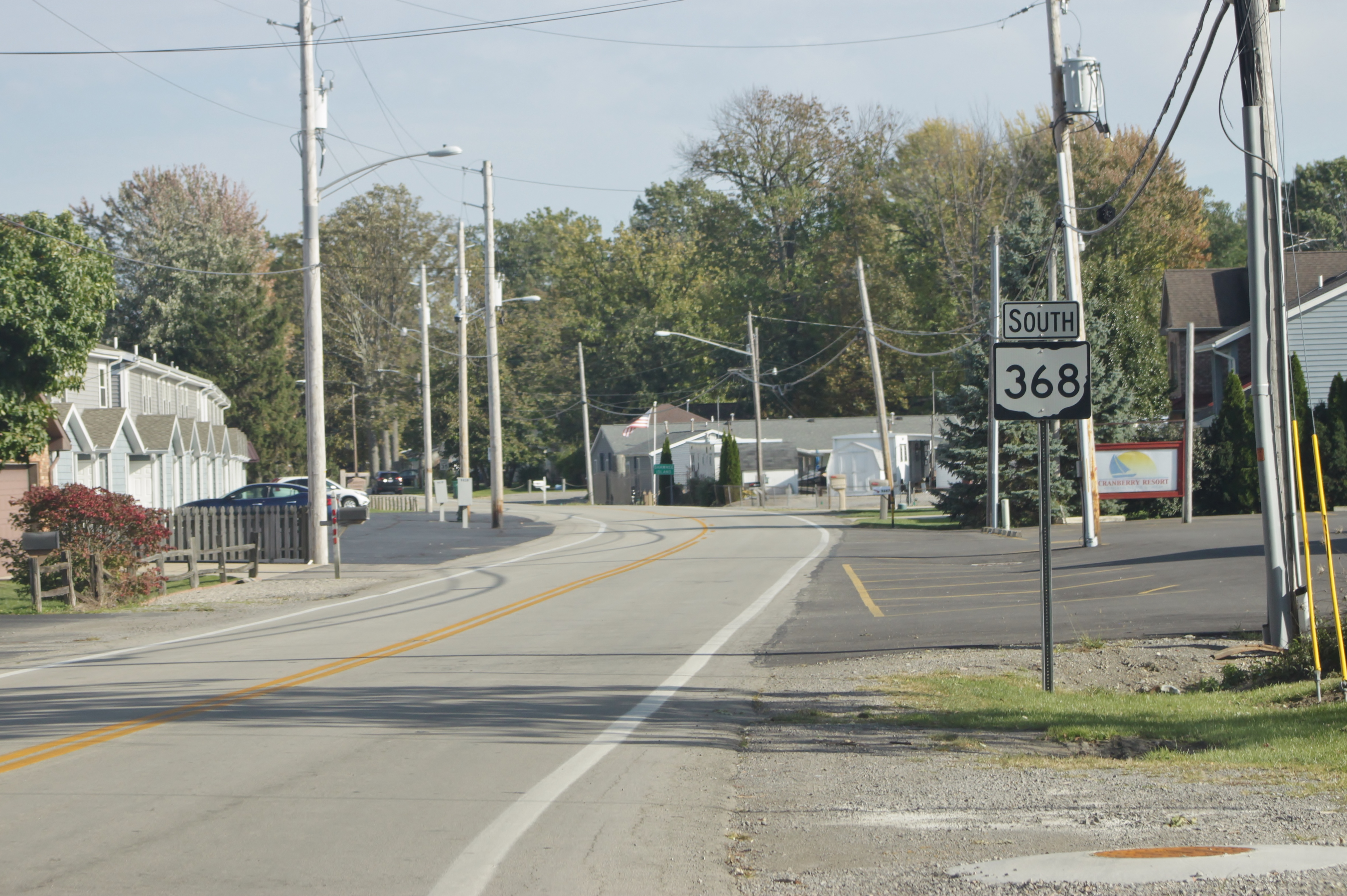 Looking southbound on Ohio State Route 368 from its northern terminus on Seminole Island in the middle of Indian Lake.